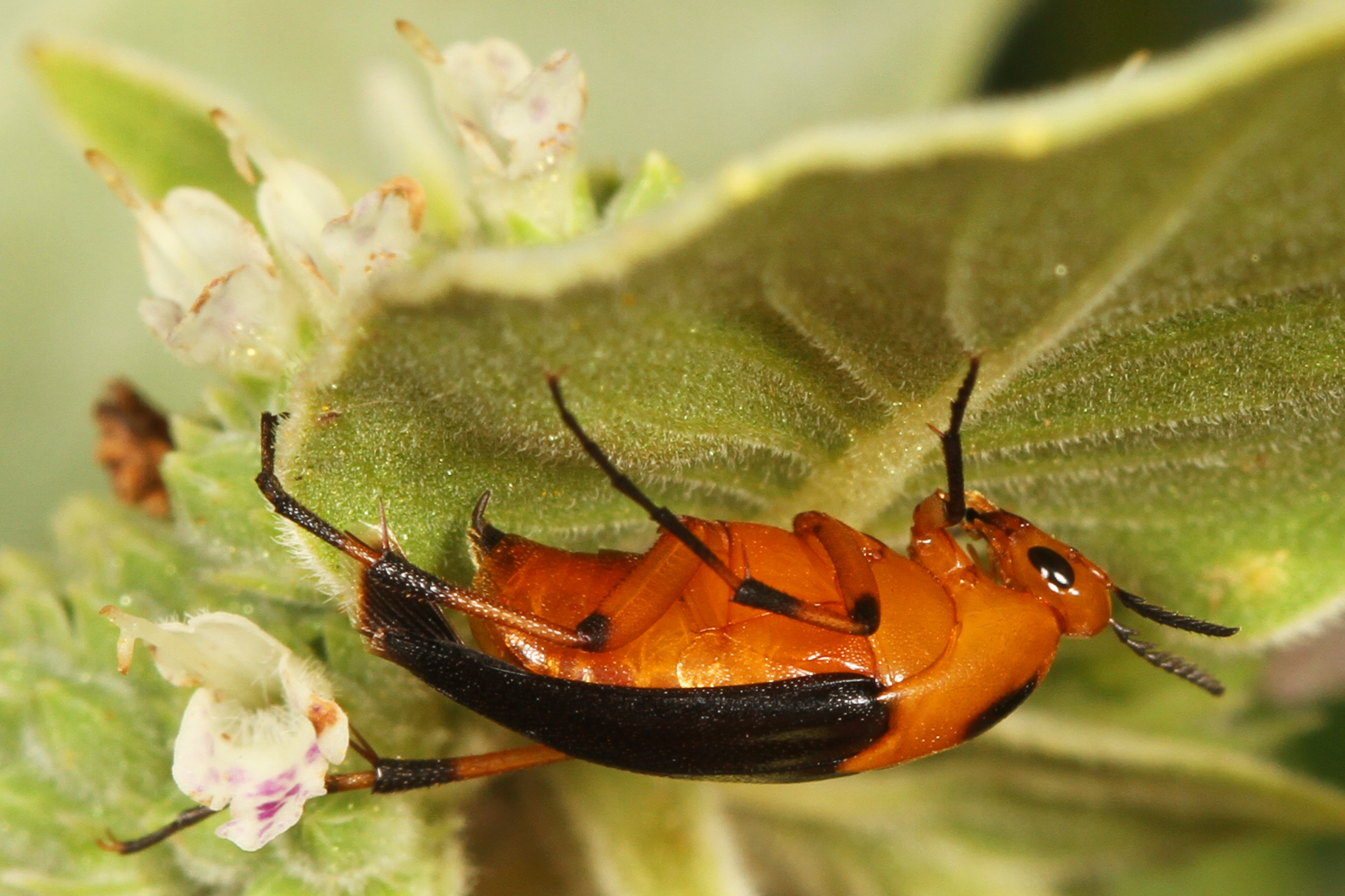 Wedge-shaped Beetle - Macrosiagon limbata, Meadowood Farm SRMA, Mason Neck, Virginia.